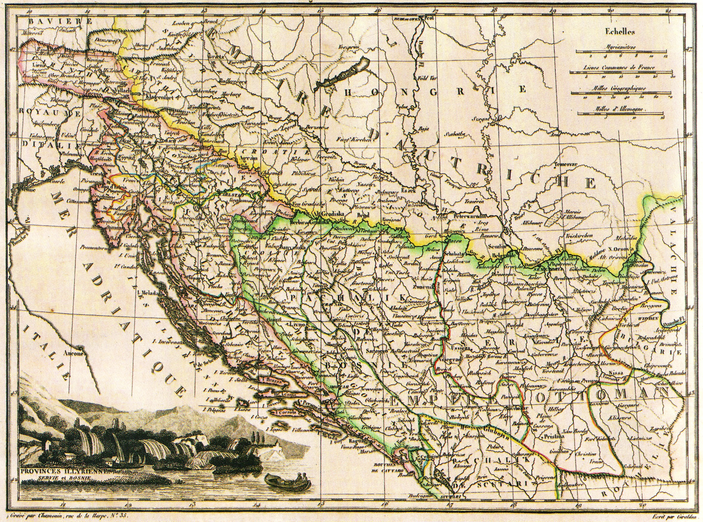 Map of the Illyrian Provinces. Owner of hard-copy original: dr. Jernej Sekolec.